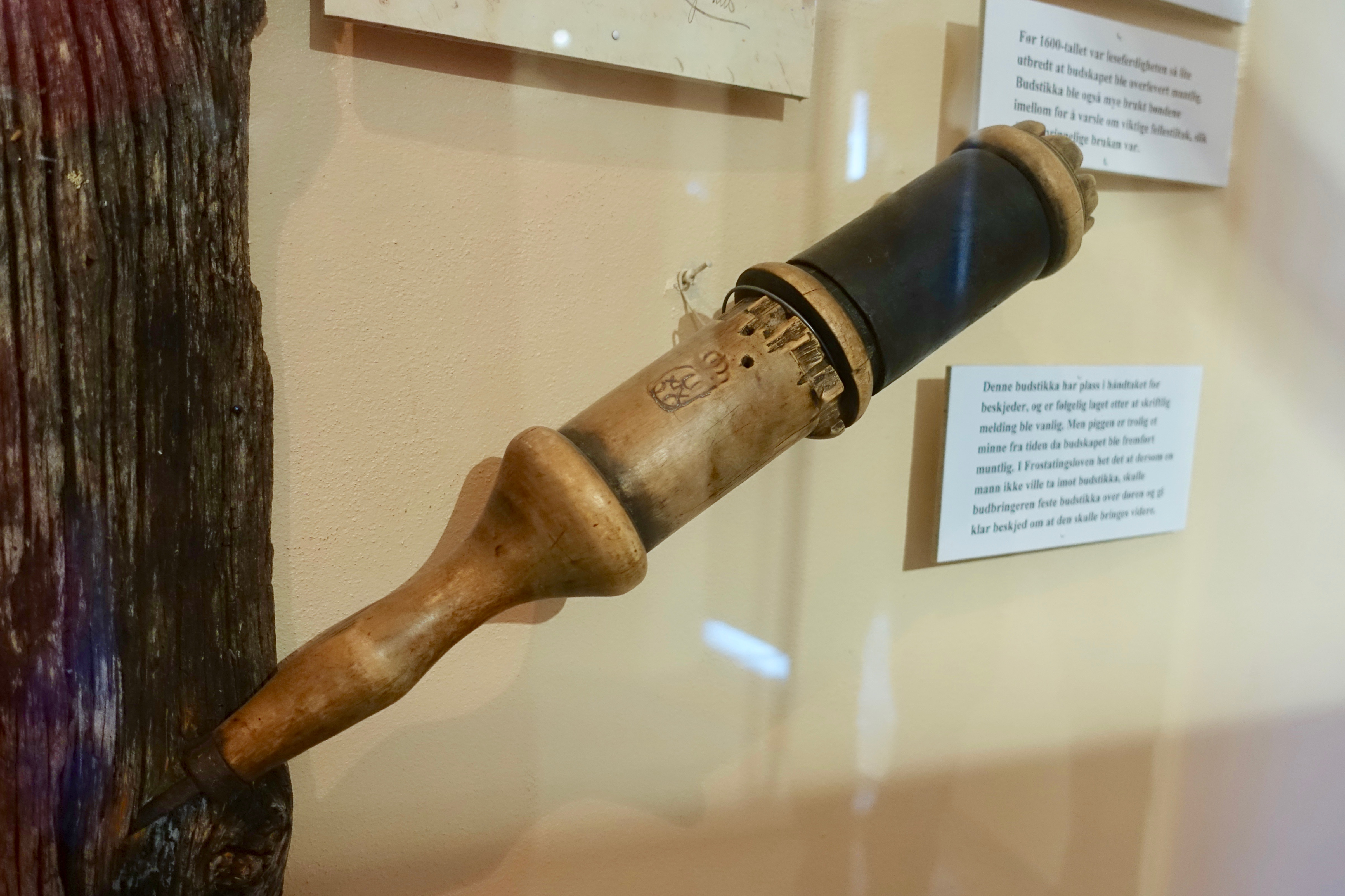 Norwegian 19th-century wooden bidding stick, i.e. container for written messenges. with arrowExhibition Justismuseet, Trondheim, Norway. Photo 2019-03-14